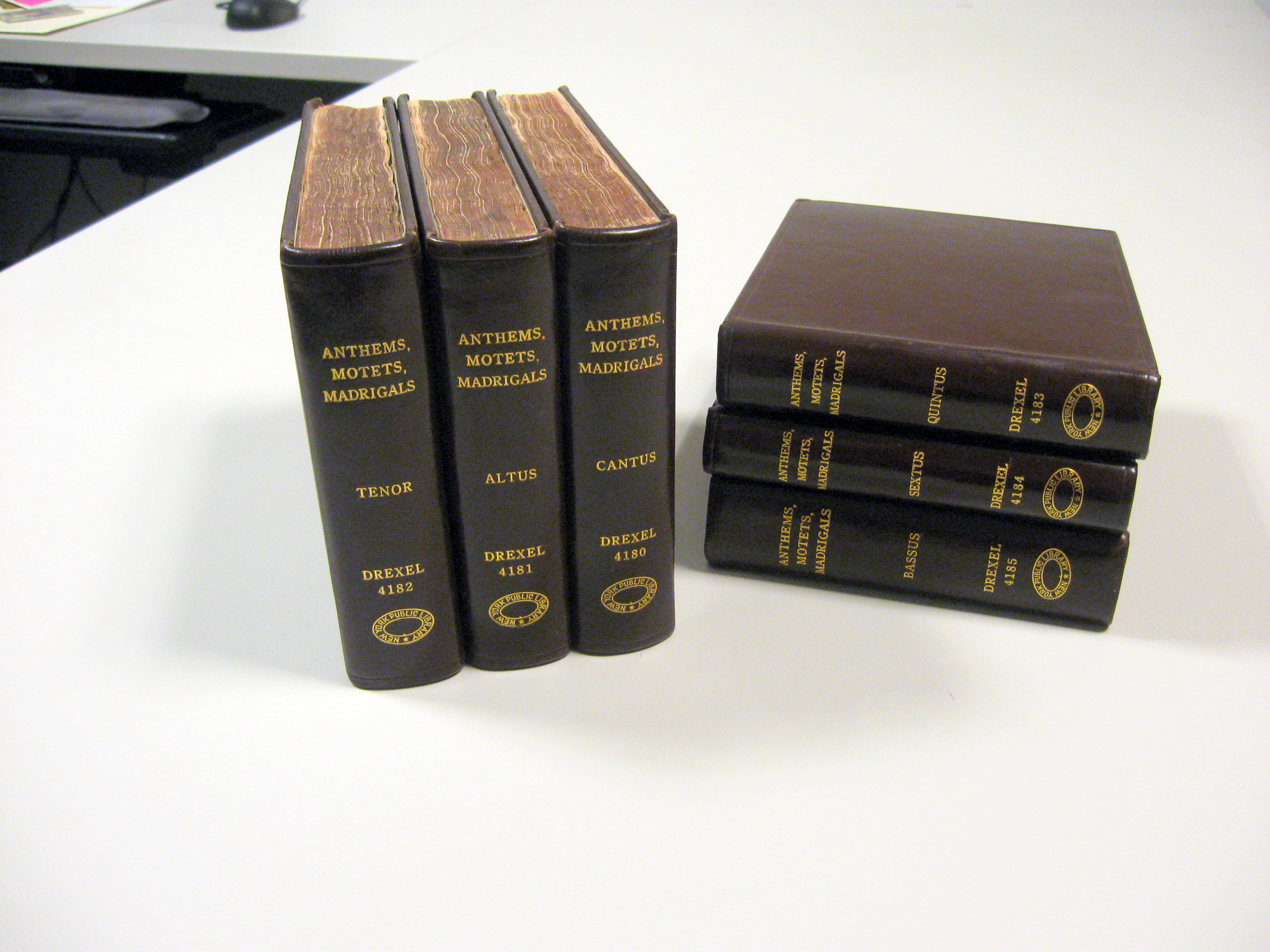 Drexel 4180-4185, a set of six manuscript partbooks compiled in the 17th century, manuscripts owned by the Music Division of the New York Public Library